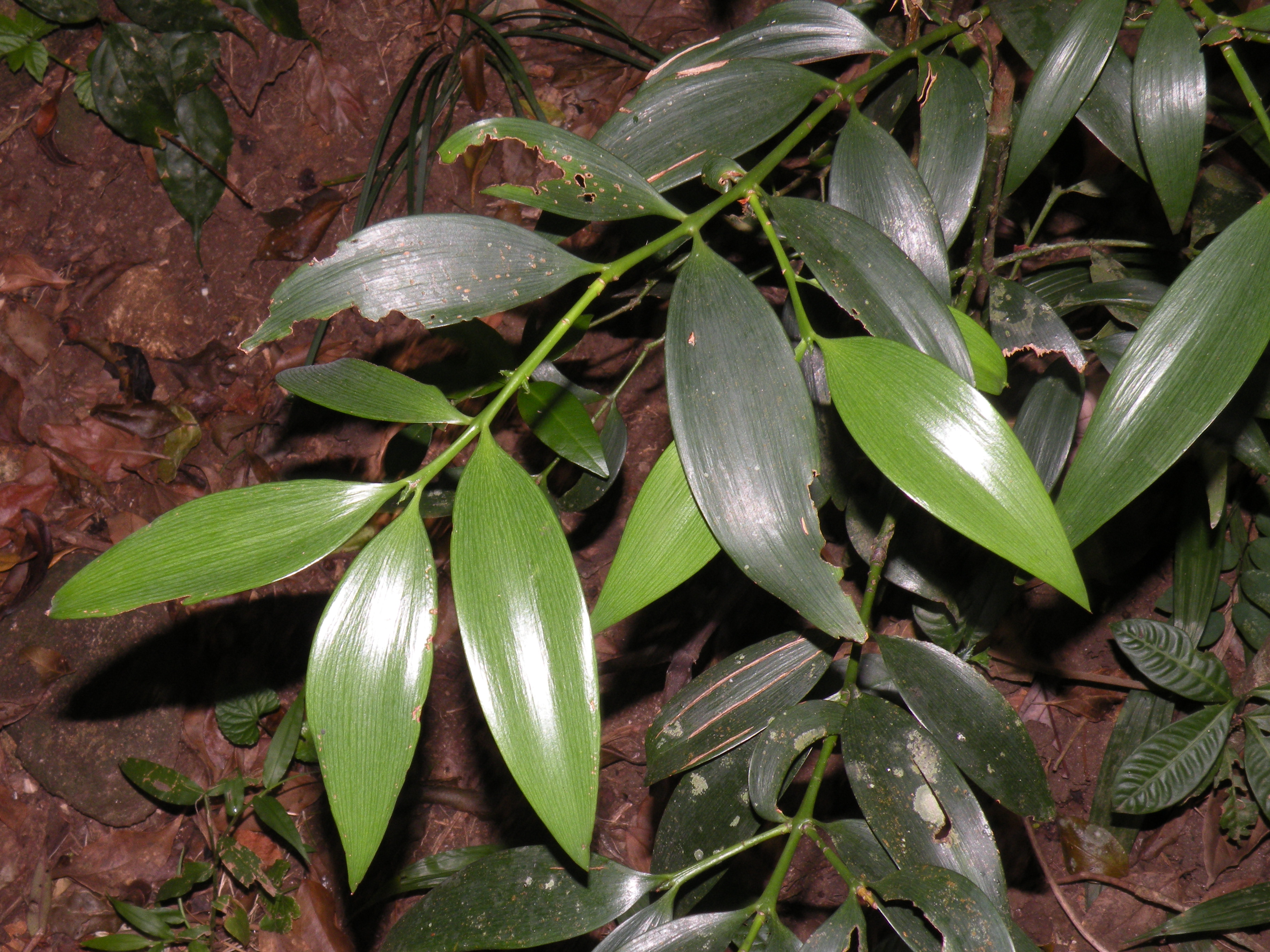 Nageia wallichiana (old name=Podocarpus wallichianus) in Periyar Tiger Reserve, Kerala, India